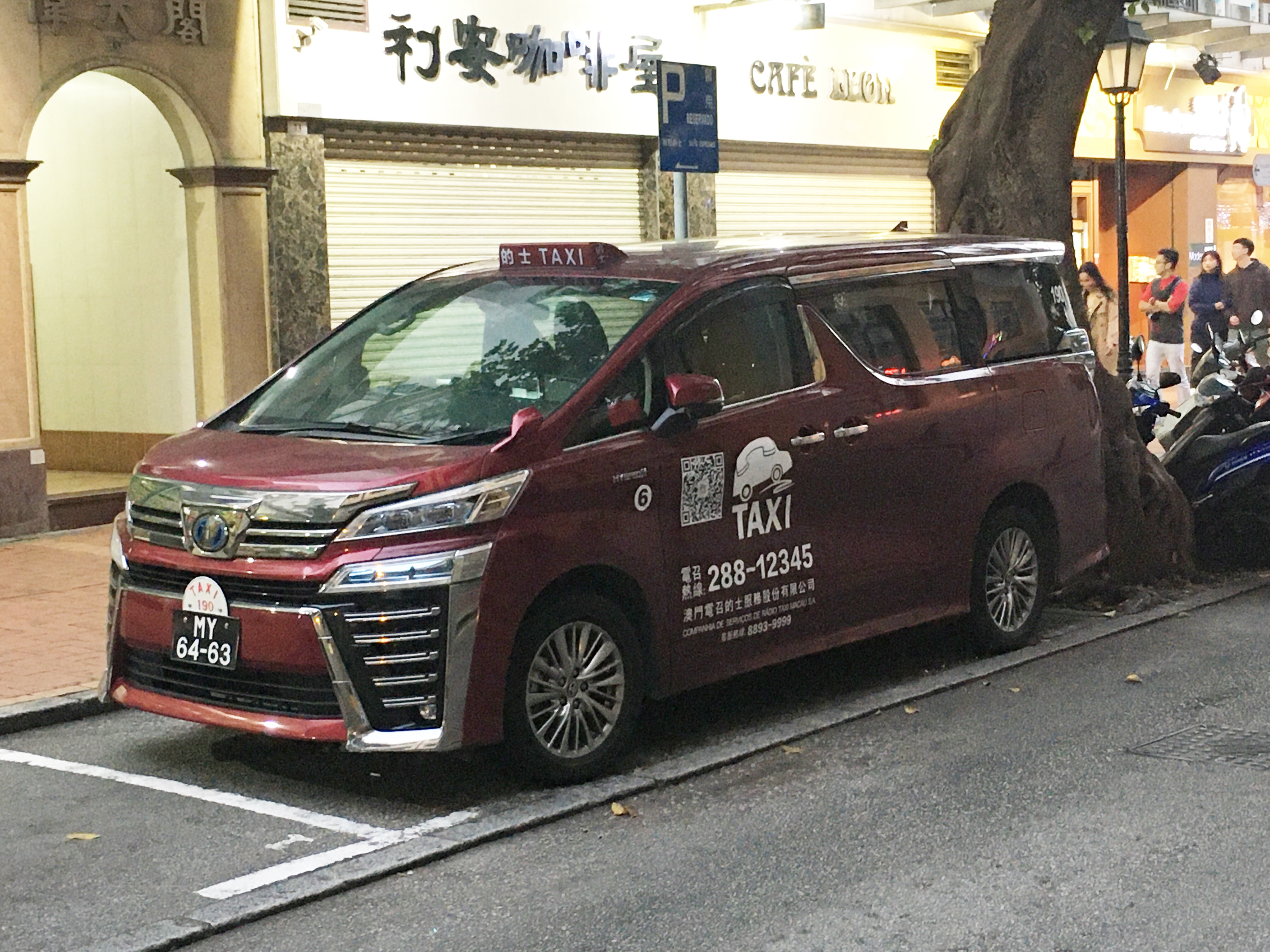 中文（香港）: This photo is taken in Kwoon Ya Street.